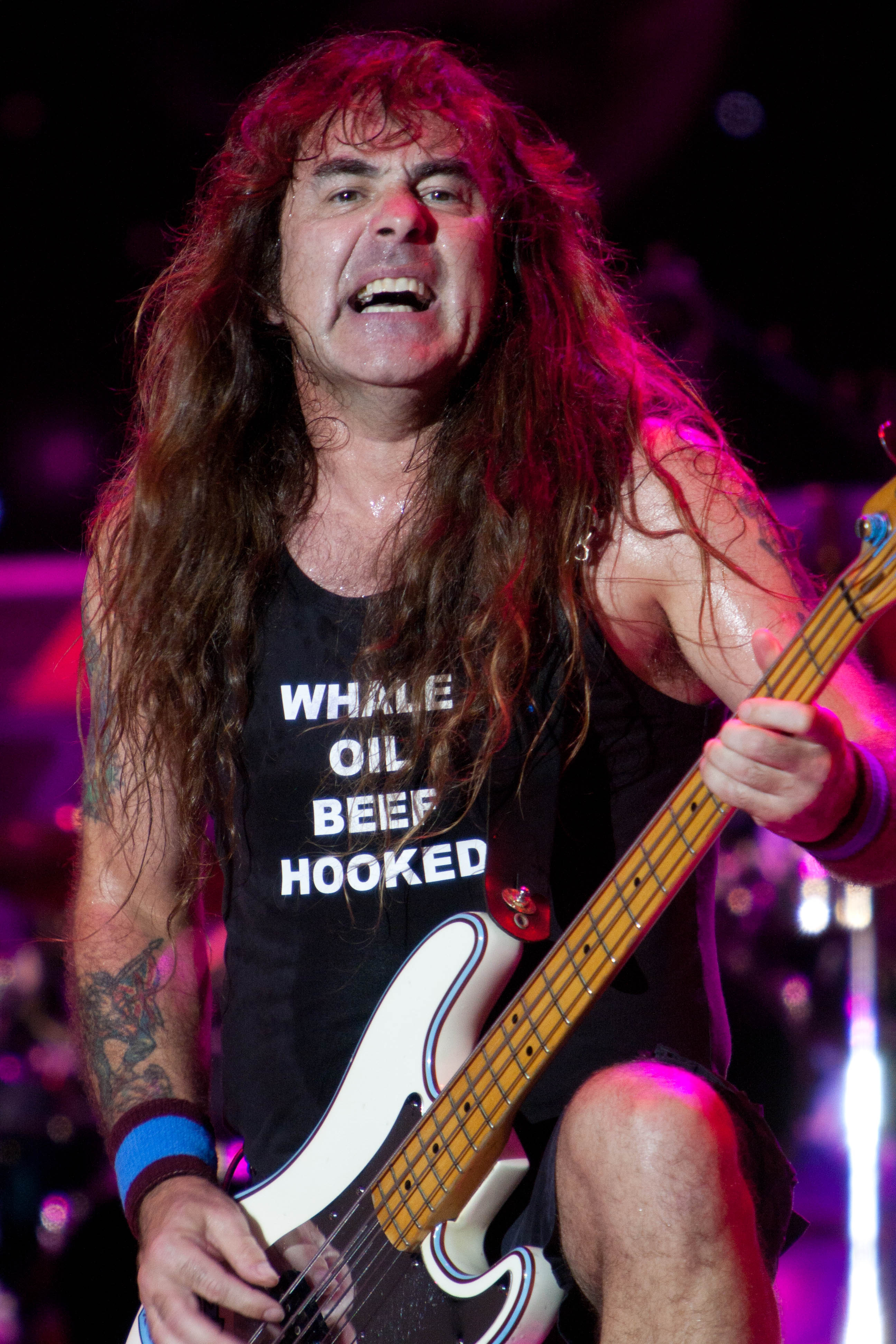 Steve Harris, bassist of Iron Maiden. Cisco Systems Ottawa Bluesfest 2010 July 6'th 2010 Ottawa, Ontario